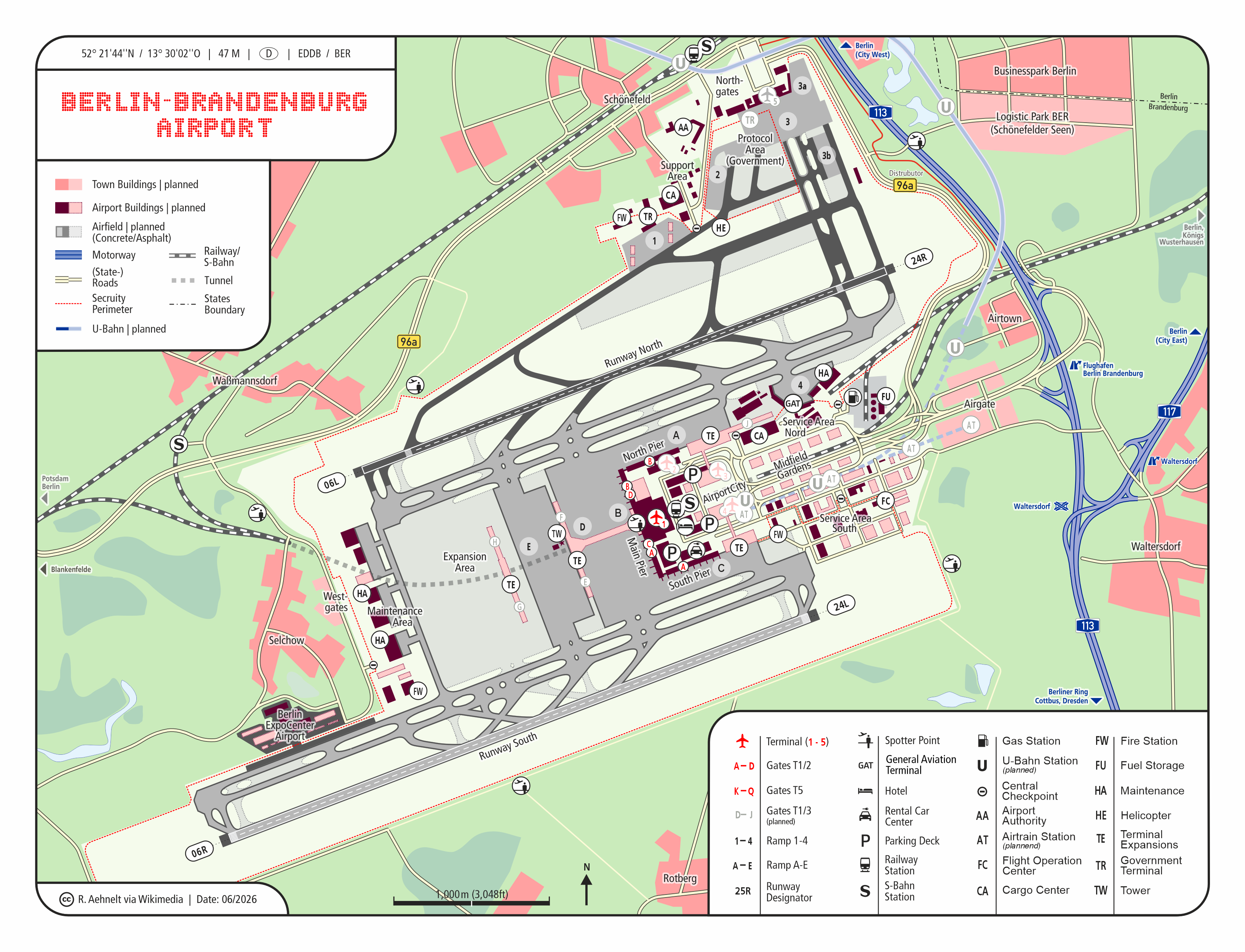 Map - Berlin Brandenburg Airport (IATA: BER / ICAO: EDDB)